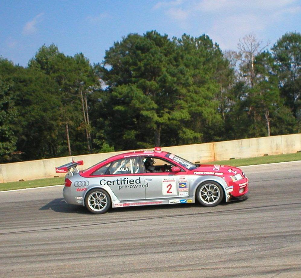 Champion Racing Audi RS6 Competition at Road Atlanta